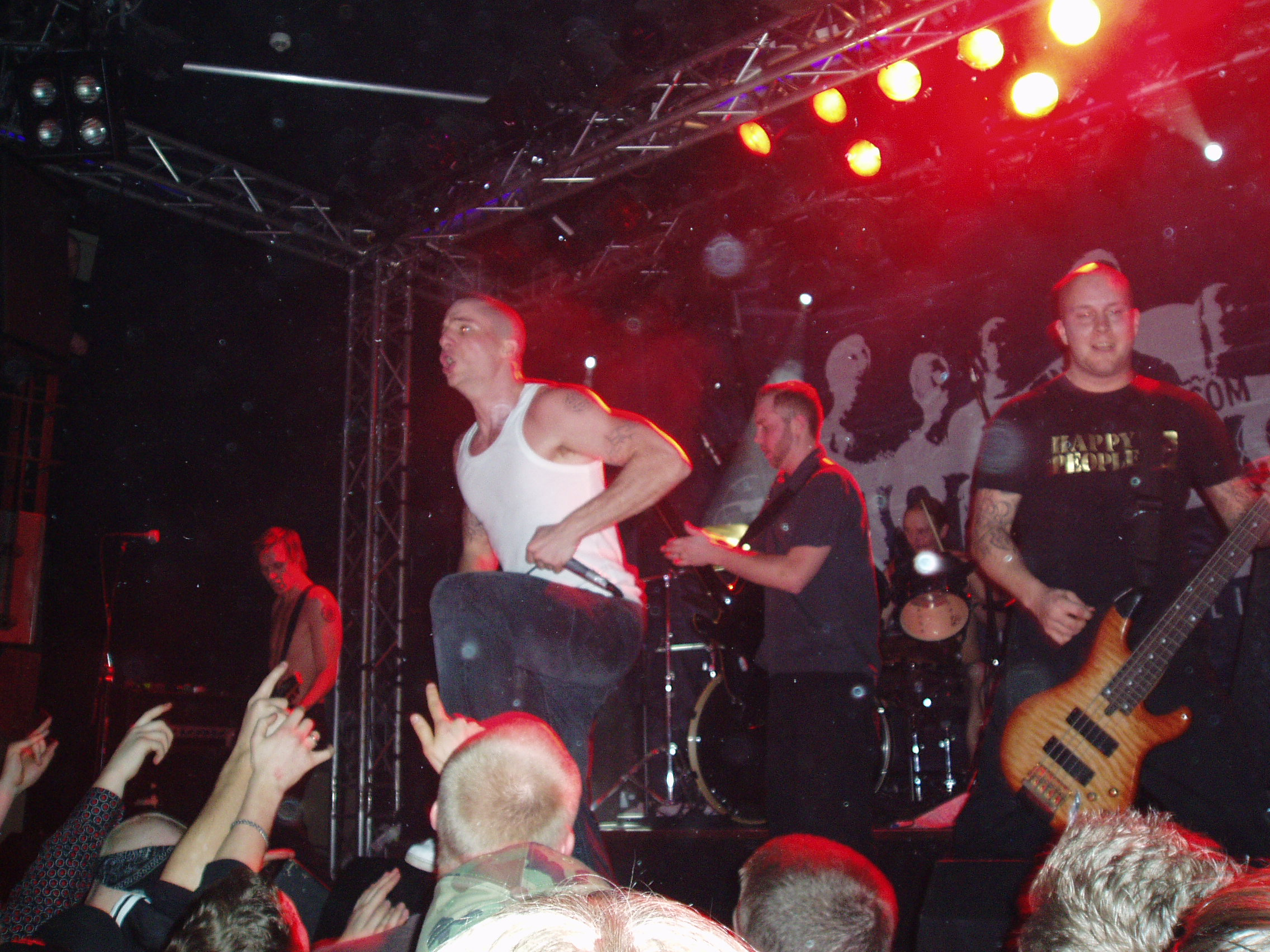 The Swedish hardcore band Raised Fist, live at Sticky Fingers, Gothenburg, Sweden.